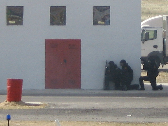 Members of the Grupo Especial de Operaciones during an assault demonstration.